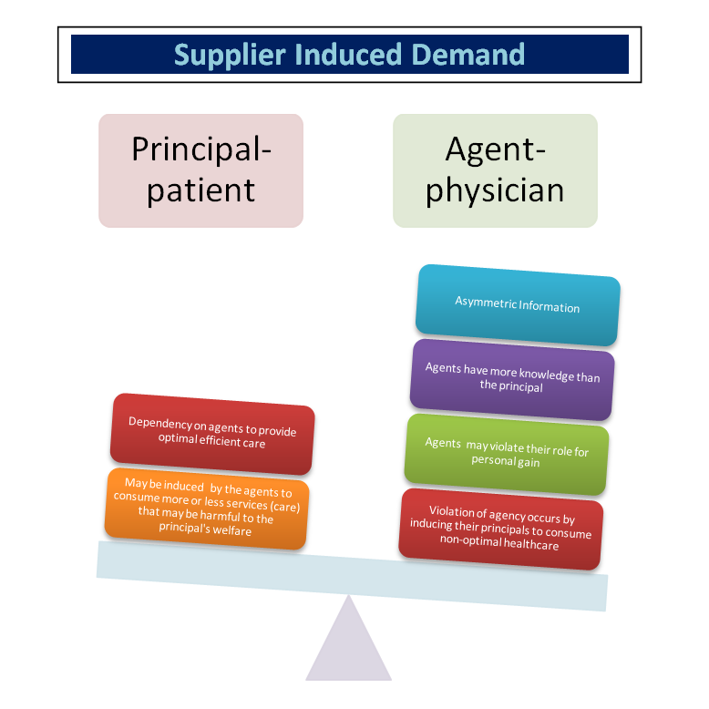 Diagram regarding supplier induced demand.